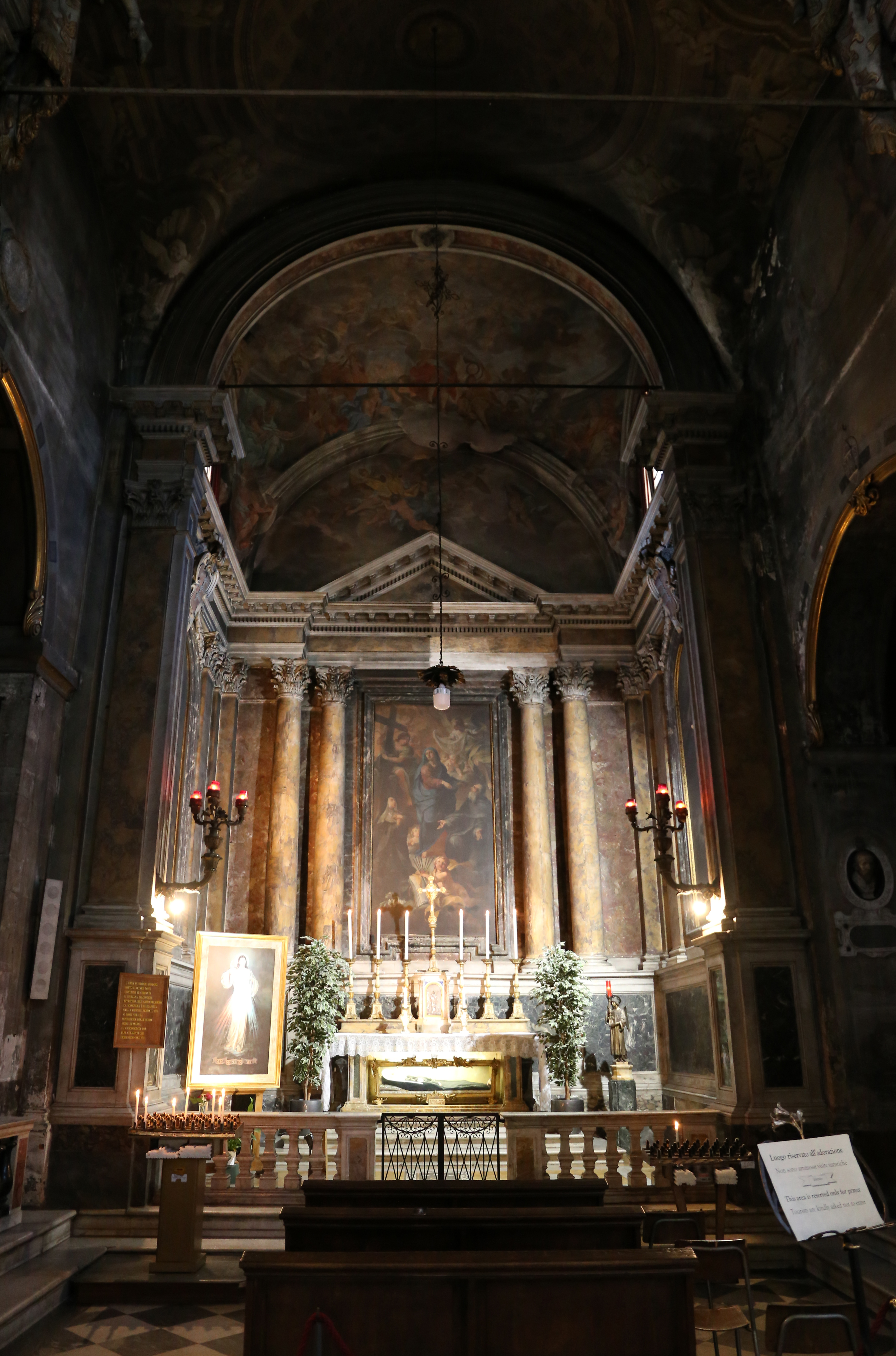 Santissima Annunziata (Florence) - Blessed Giuliana Falconieri Chapel